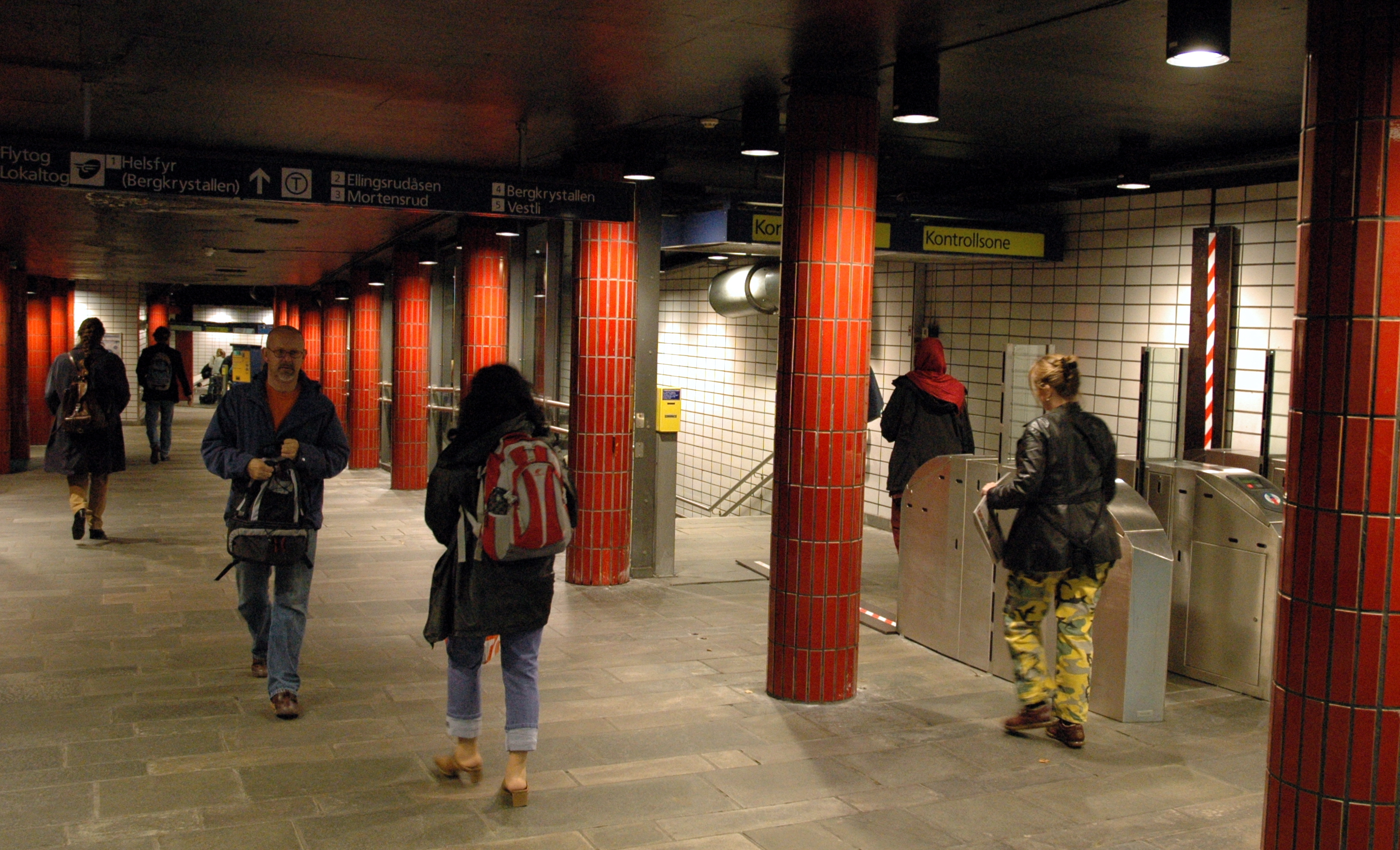 Inside the entrance of Nationaltheatret metro station, Oslo, Norway.